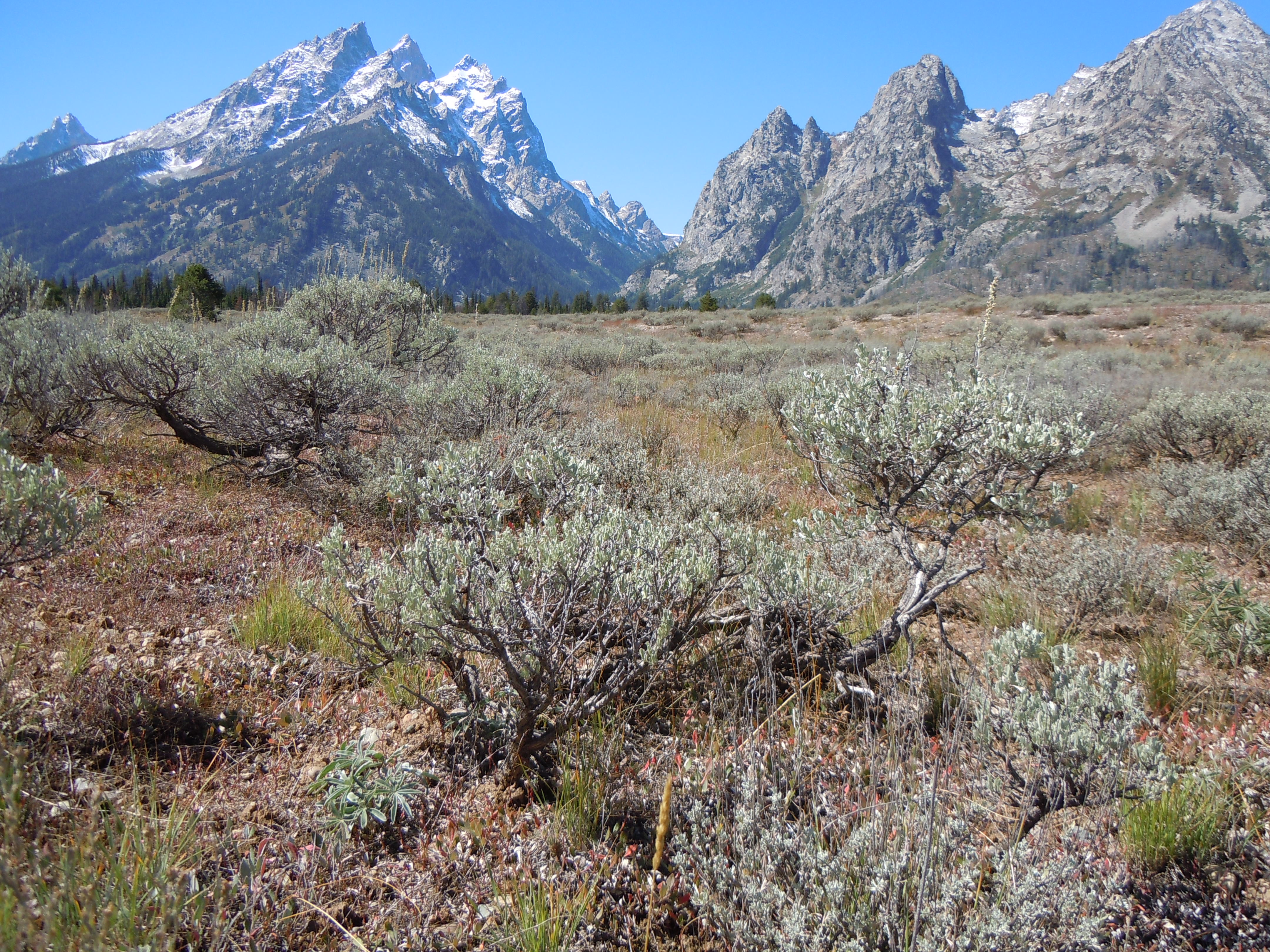 Little sagebrush, the smaller shrubs sitting to the back center, occurs in patches among the mountain big sagebrush especially in open and more exposed settings and perhaps where the soils are less deep.